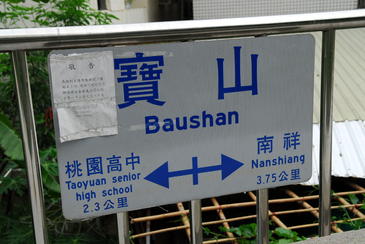 Baushan Station is a small station on Linkou Line. In this photo we can see the station information sign.